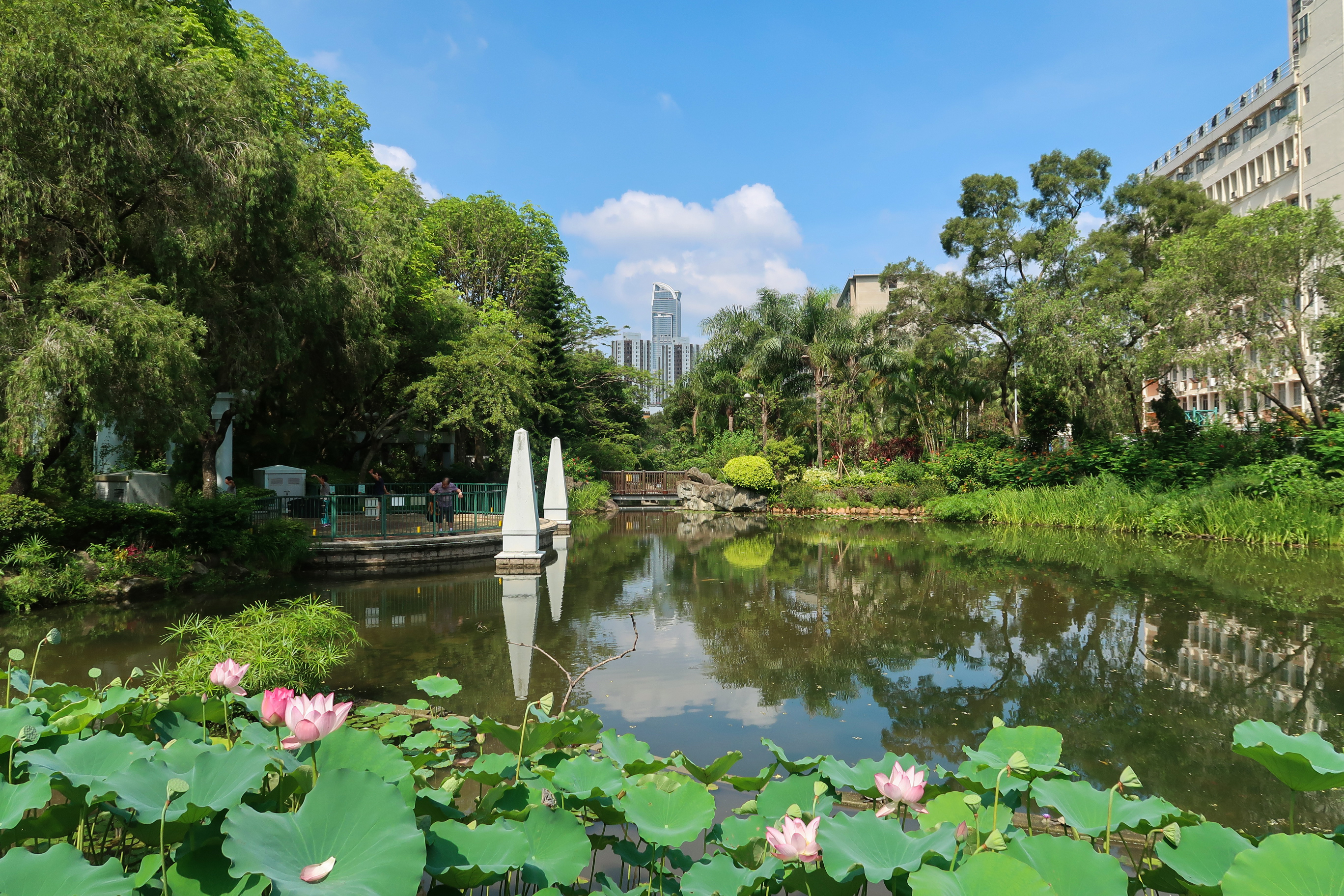 Shing Mun Valley Park